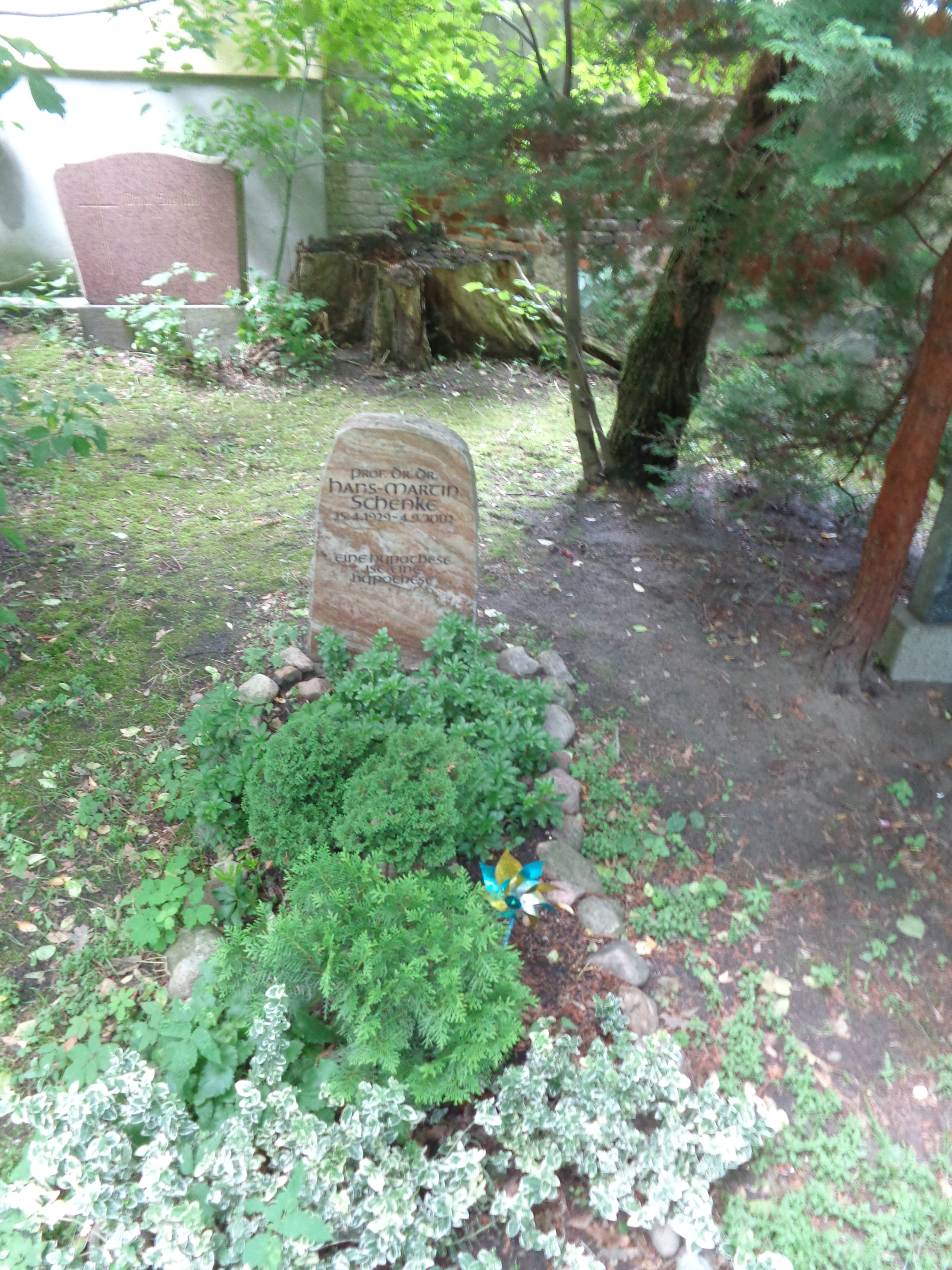 Grave of Prof. Dr. Dr. Hans-Martin Schenke (1929-2002) in June 2017.